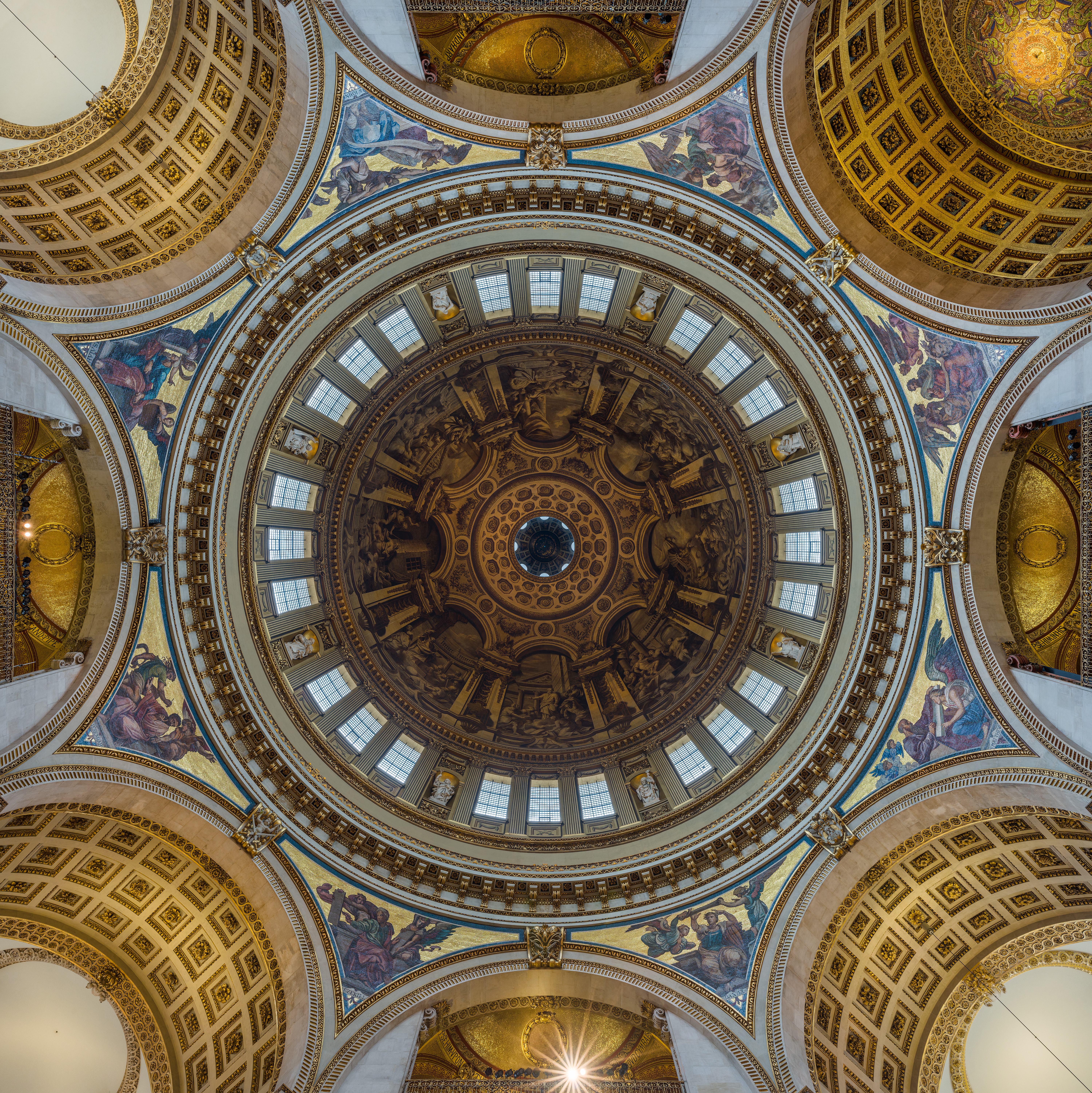 A view of St Paul's Cathedral's dome from directly below, showing the symmetry of the dome and cathedral. Top right is the eastern side. Bottom left is the western side. Top left is the northern transept. Bottom right is the southern transept.